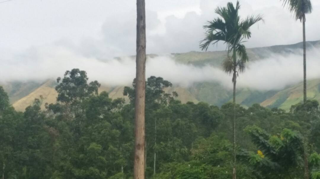 Beautiful nature of Buea early in the morning near the mountain